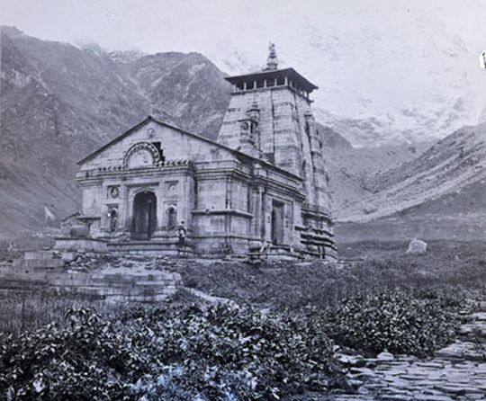 Old photograph of Kedarnath temple shot in 1880s